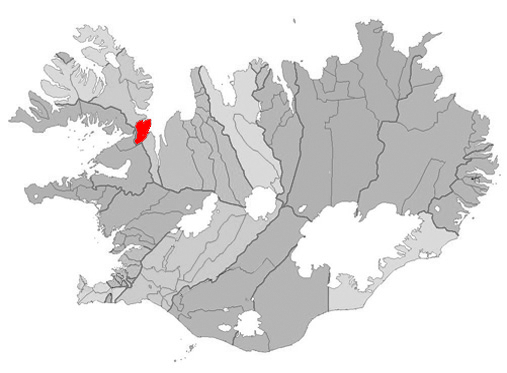 Based on Municipalities of Iceland.png.